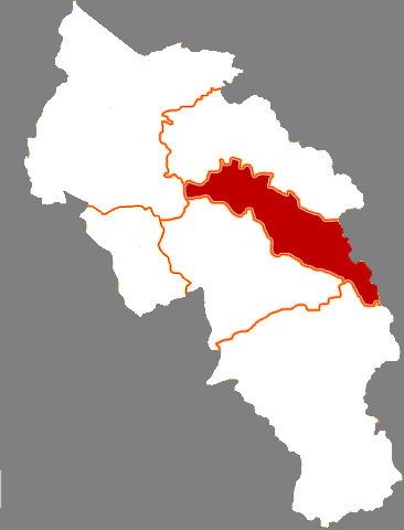 Location of Pingchuan district in Baiyin city, China